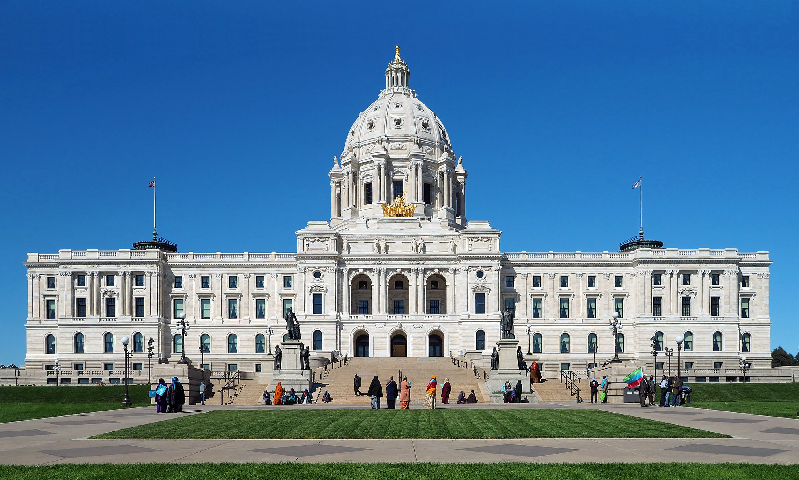 Minnesota State Capitol, 75 Rev Dr Martin Luther King Jr Blvd, St Paul, Minnesota, USA. Viewed from the south during a small demonstration by Somali Americans.